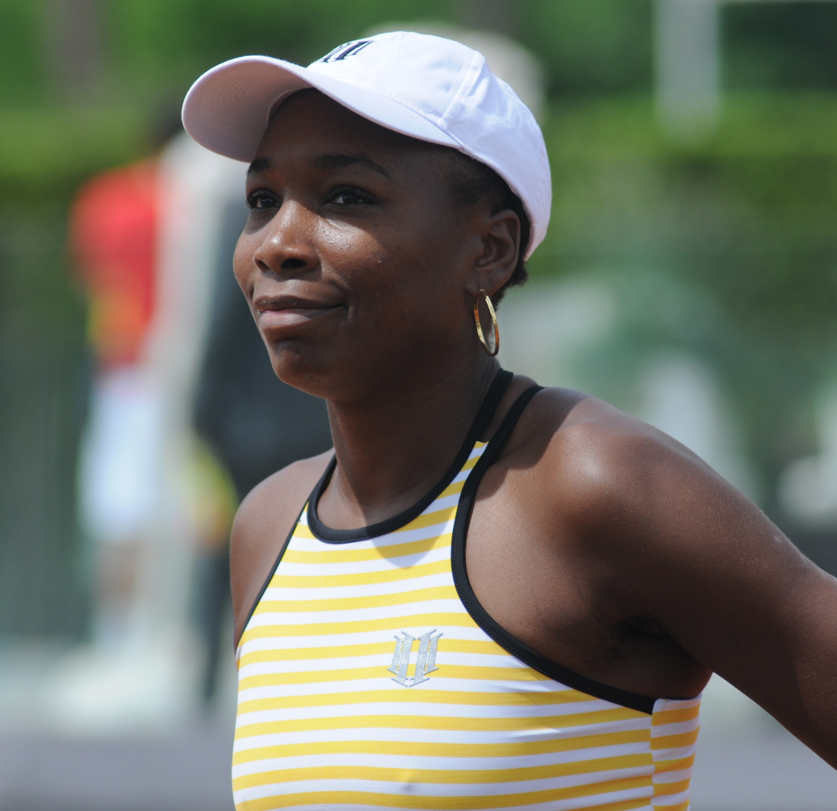 Venus Williams at the 2014 Internazionali BNL d'Italia